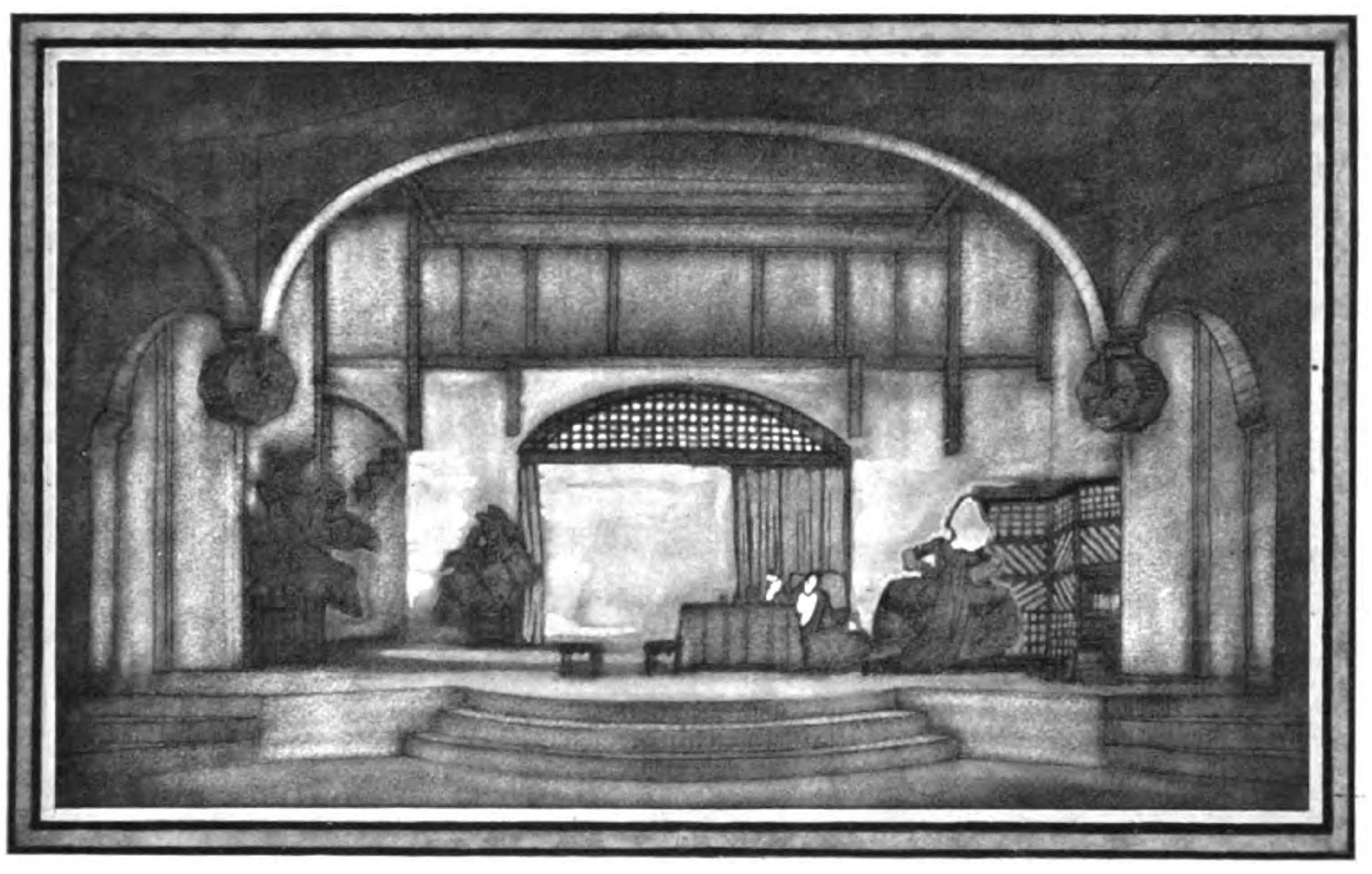 Set design for La Carosse du Saint Sacrement by Prosper Mérimée for Jacques Copeau's Théâtre du Vieux-Colombier by Louis Jouvet.